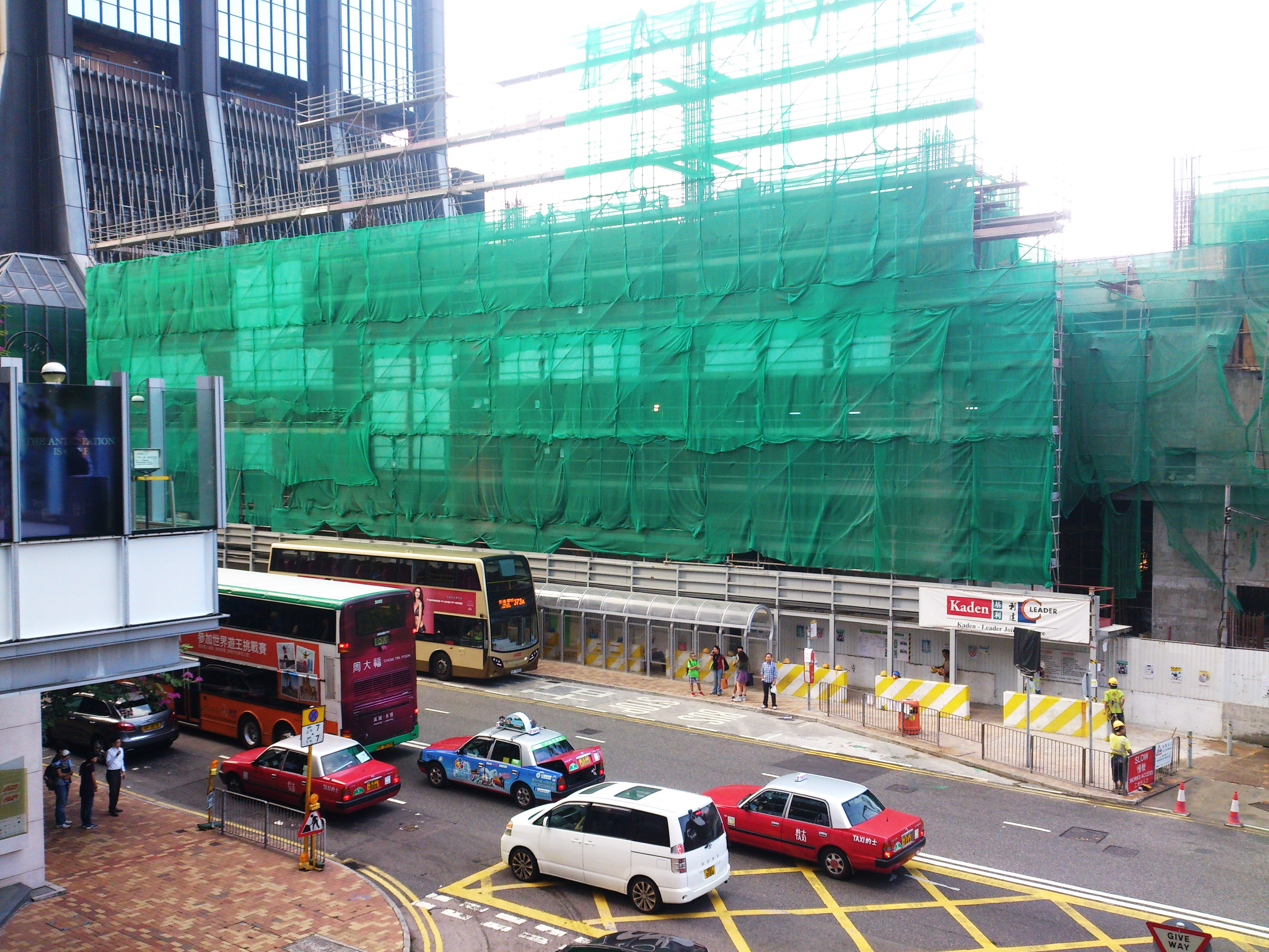 Exhibition Station related construction works near Harbour Centre in 2014